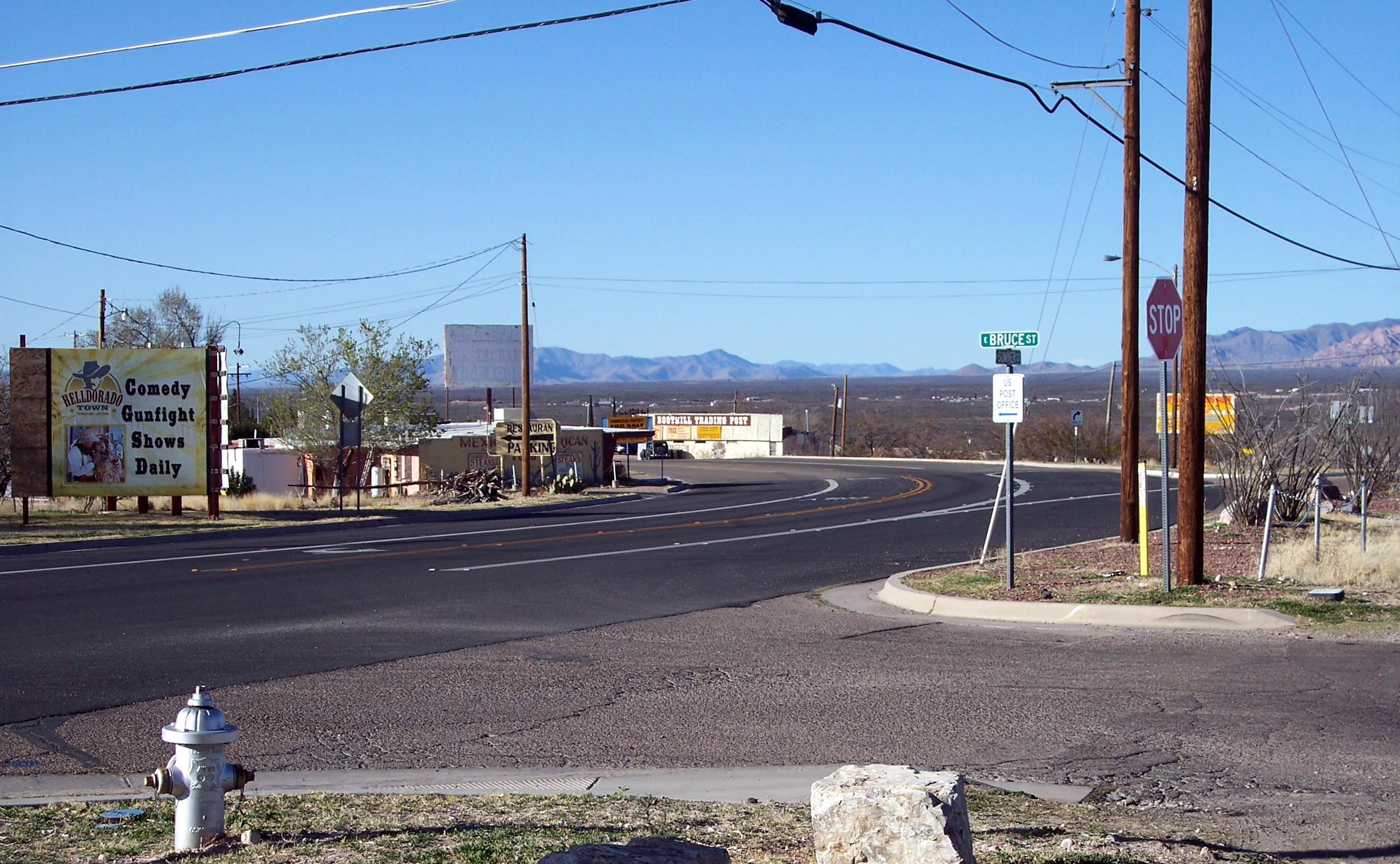 Arizona State Road 80 in Tombstone (as the Norther Sumner Street) at the intersection with East Bruce Street, seen towards south.